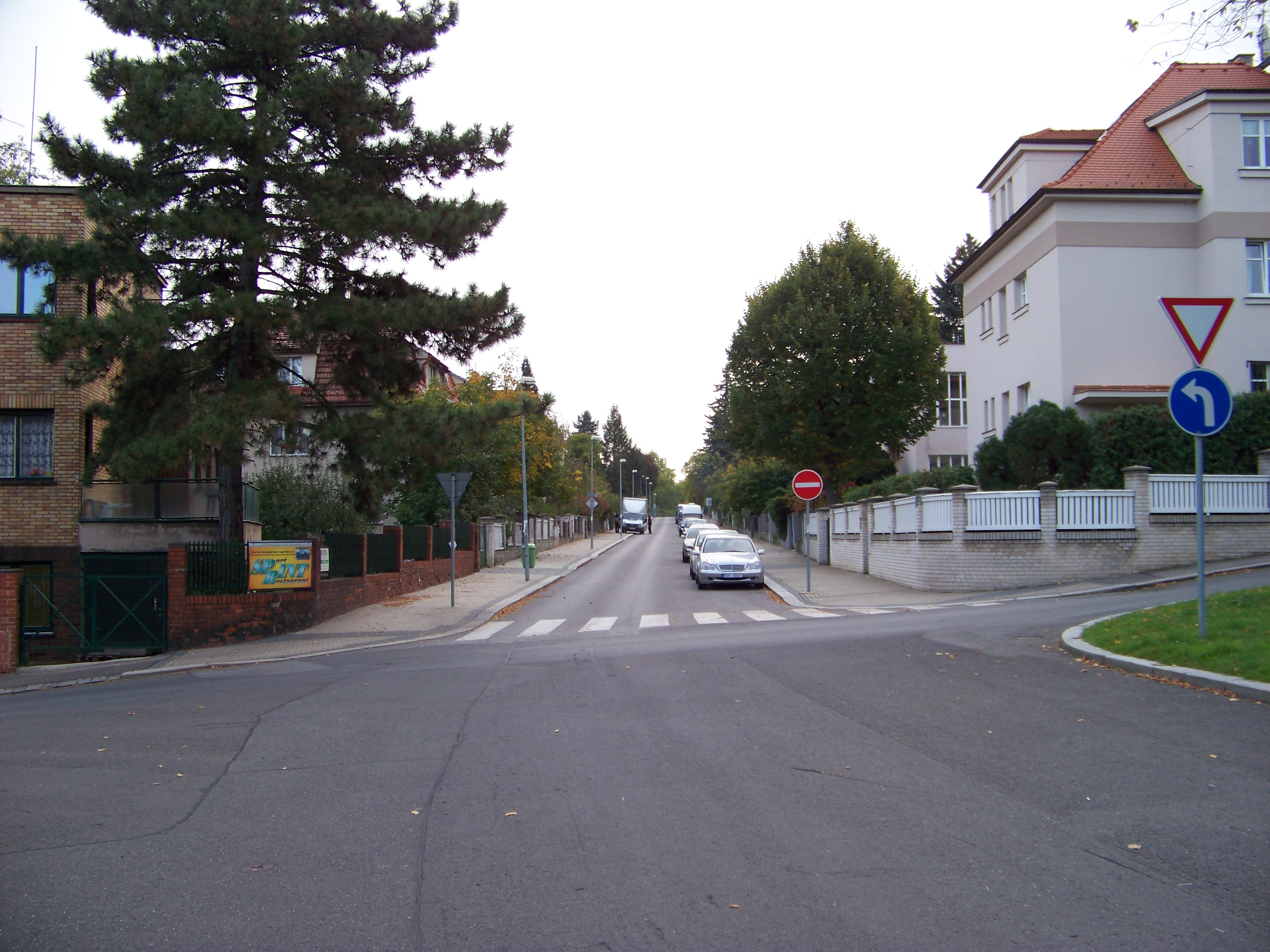 Prague-Střešovice, the Czech Republic. Cukrovarnická street. - OpenStreetMap(Info)